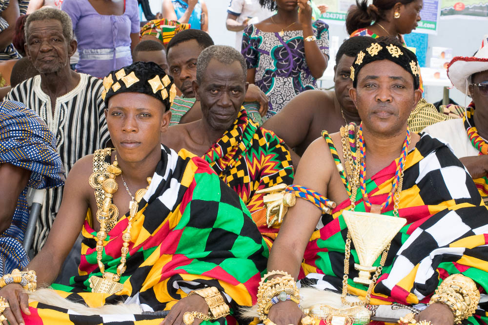 chiefs Wrapped with Assorted Kente cloth during the Agbamekevor Za (kente Festival) of the chiefs and people of Agortime Kpetoe in the Volta Region of Ghana...West Africa This is an image of Cultural Fashion or Adornment from Ghana